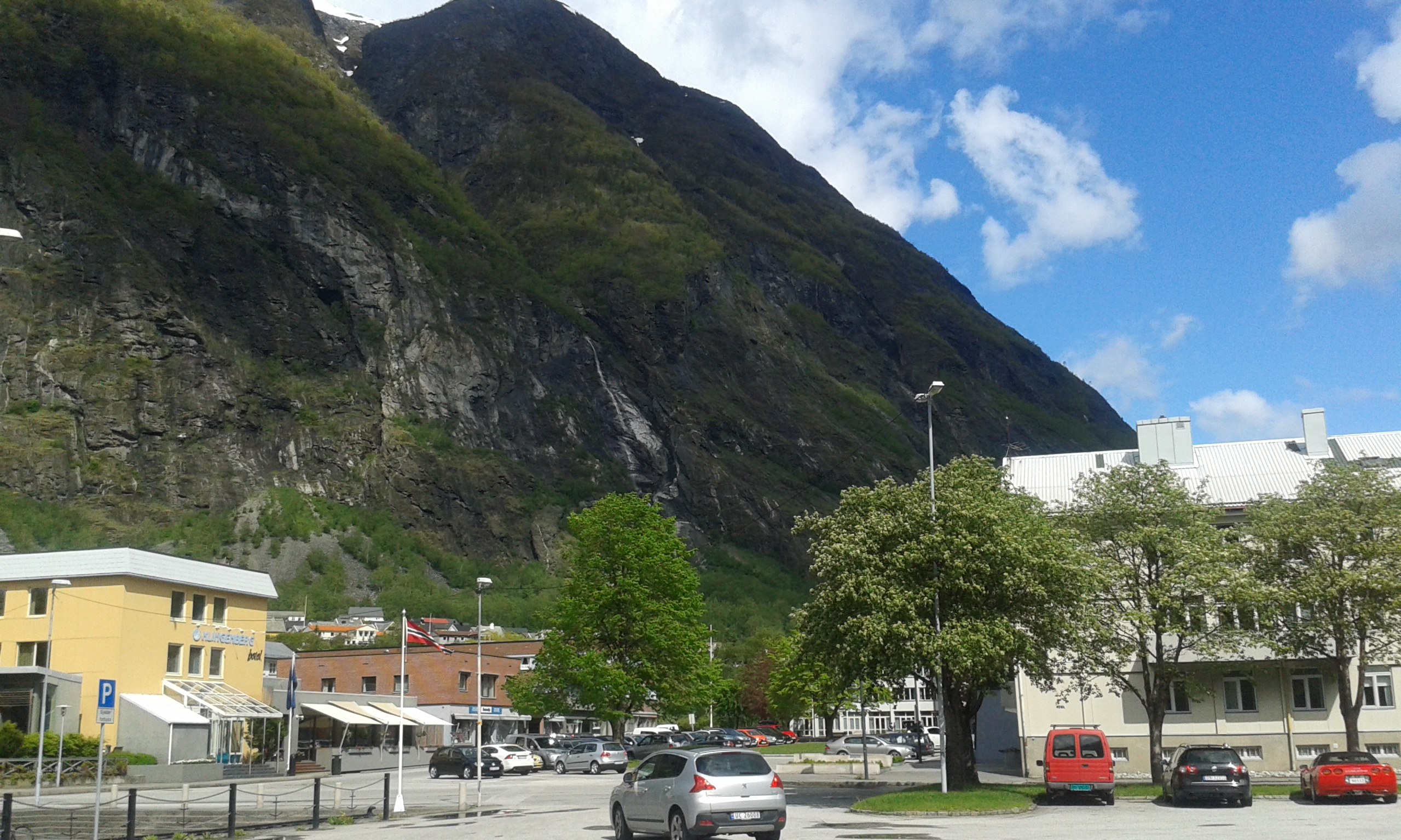 Årdalstangen